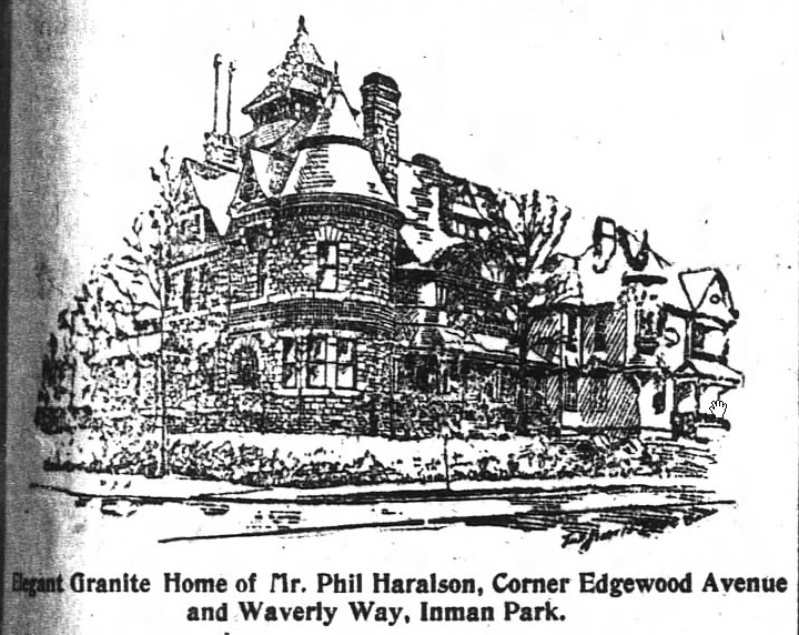 Phil Haralson home, Inman Park, Atlanta, 1895